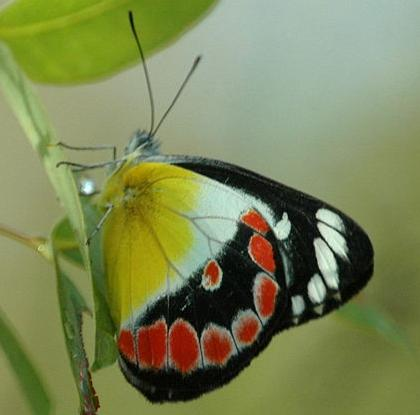 Scarlet Jezebel (Wikipedia:Delias argenthona) @ Kobble Creek, SE Queensland, Australia